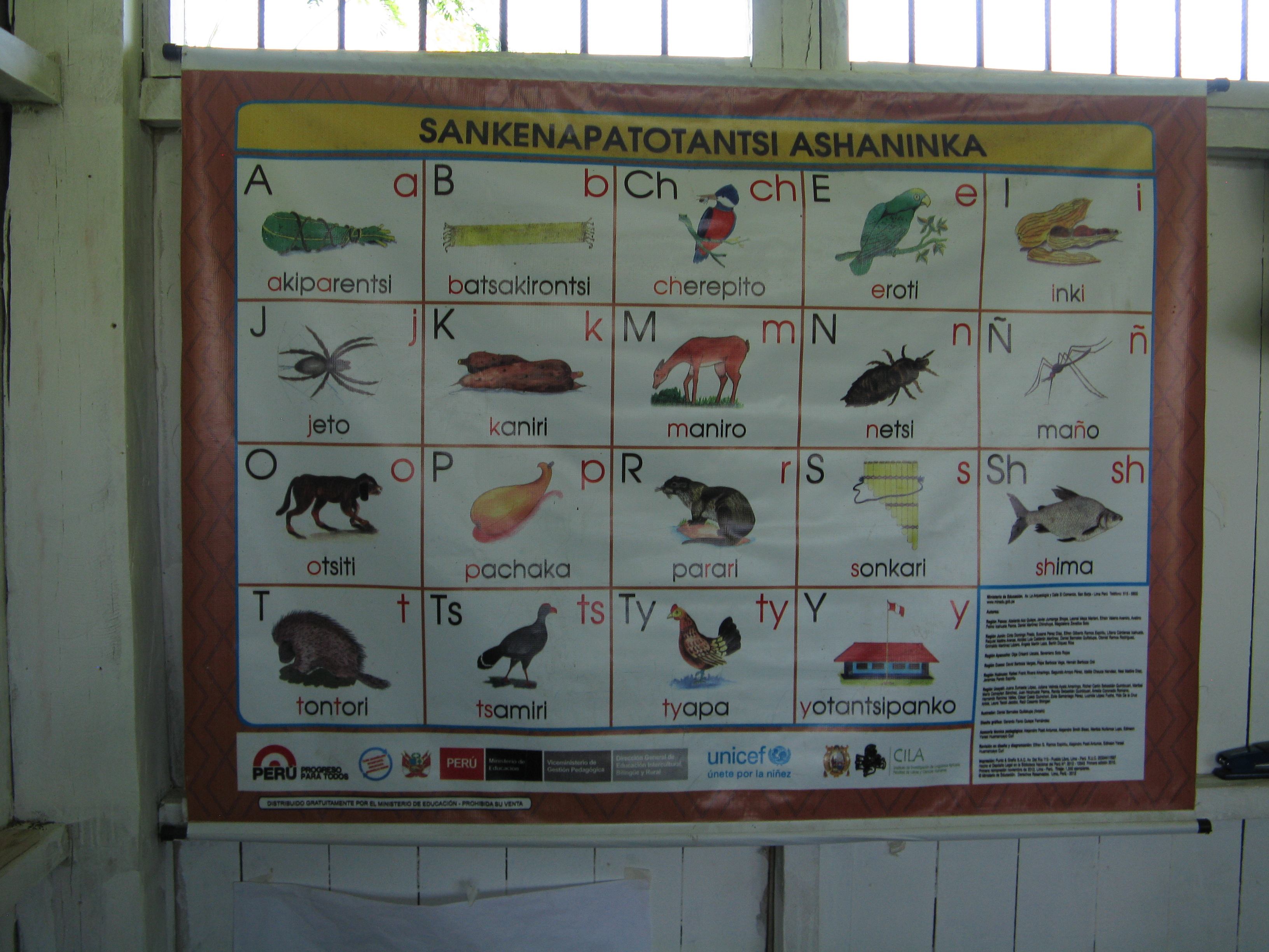 Table with abc in a small school of the people of Asháninca in Peru, Comunidades Nativas Asháninka "Nuevos Unidos Tahuantinsuyo", (Distr. Huanuca, Prov. Perta Inca)